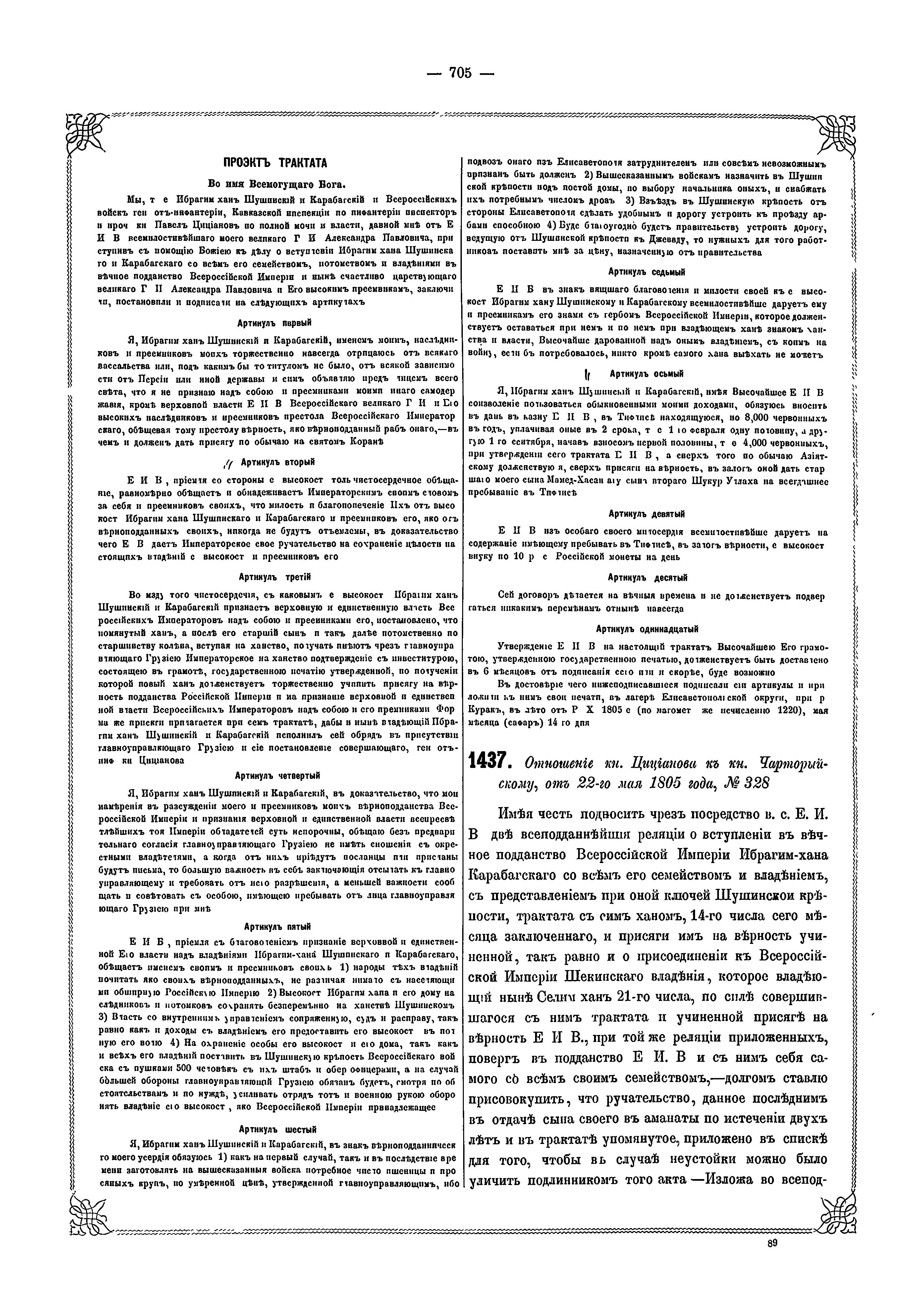 Kurekchay_between_Russian_Empire_Cicianov(russian_general)_and_Karabakh_Khanate.jpg